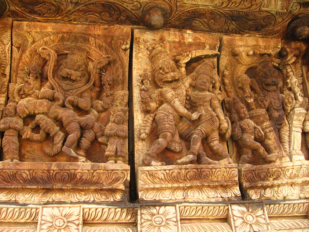 I found these carvings in the Temple Car, near mayavaram. Incidentally,the Temple car belongs to siva temple!